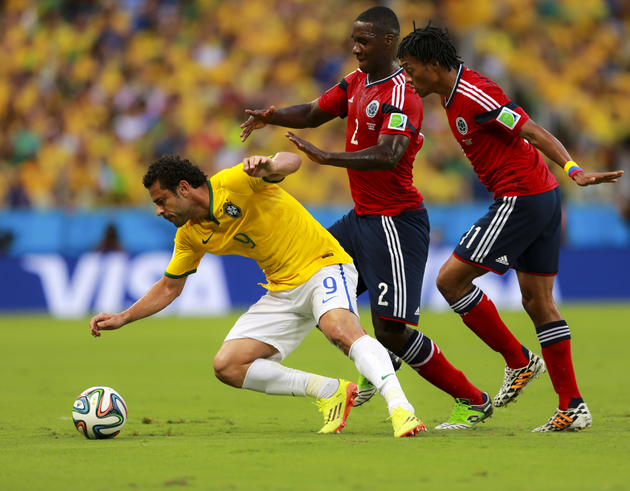 Brazil and Colombia match at the FIFA World Cup 2014-07-04